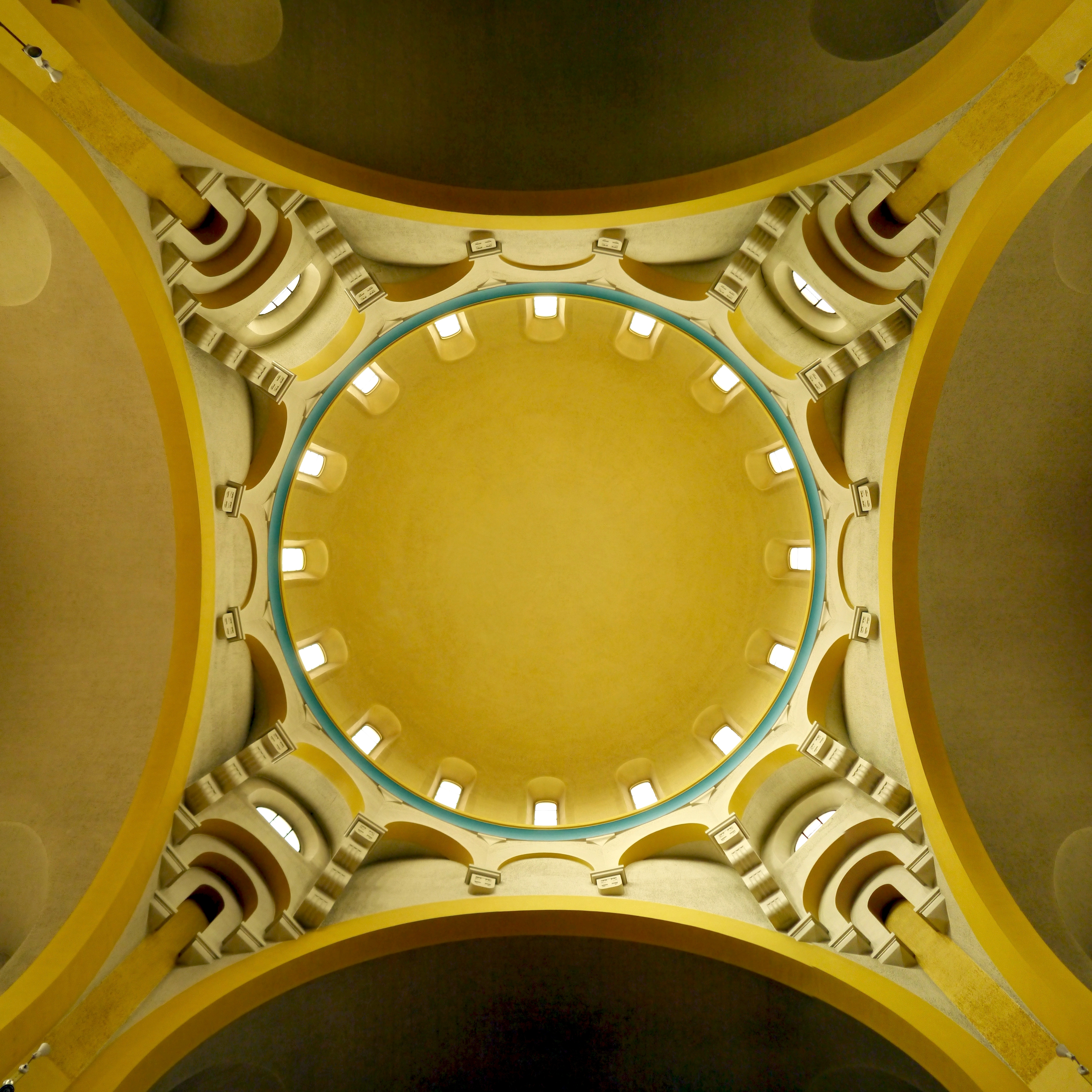 The dome of the Église Saint-Dominique, Paris.